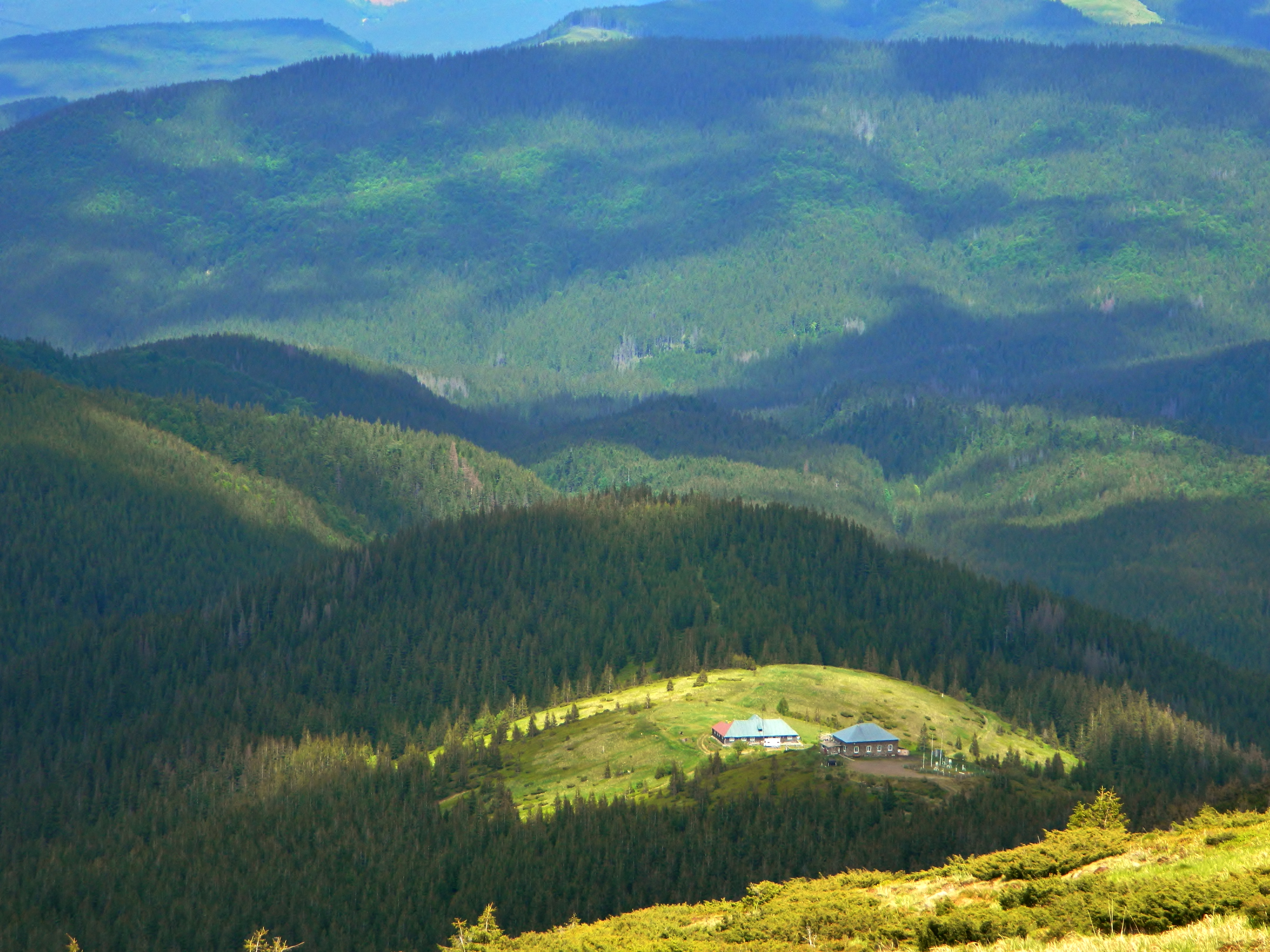 View of polonyna Pozhyzhevska from the Chornohora range. Biological Station and Weather Station